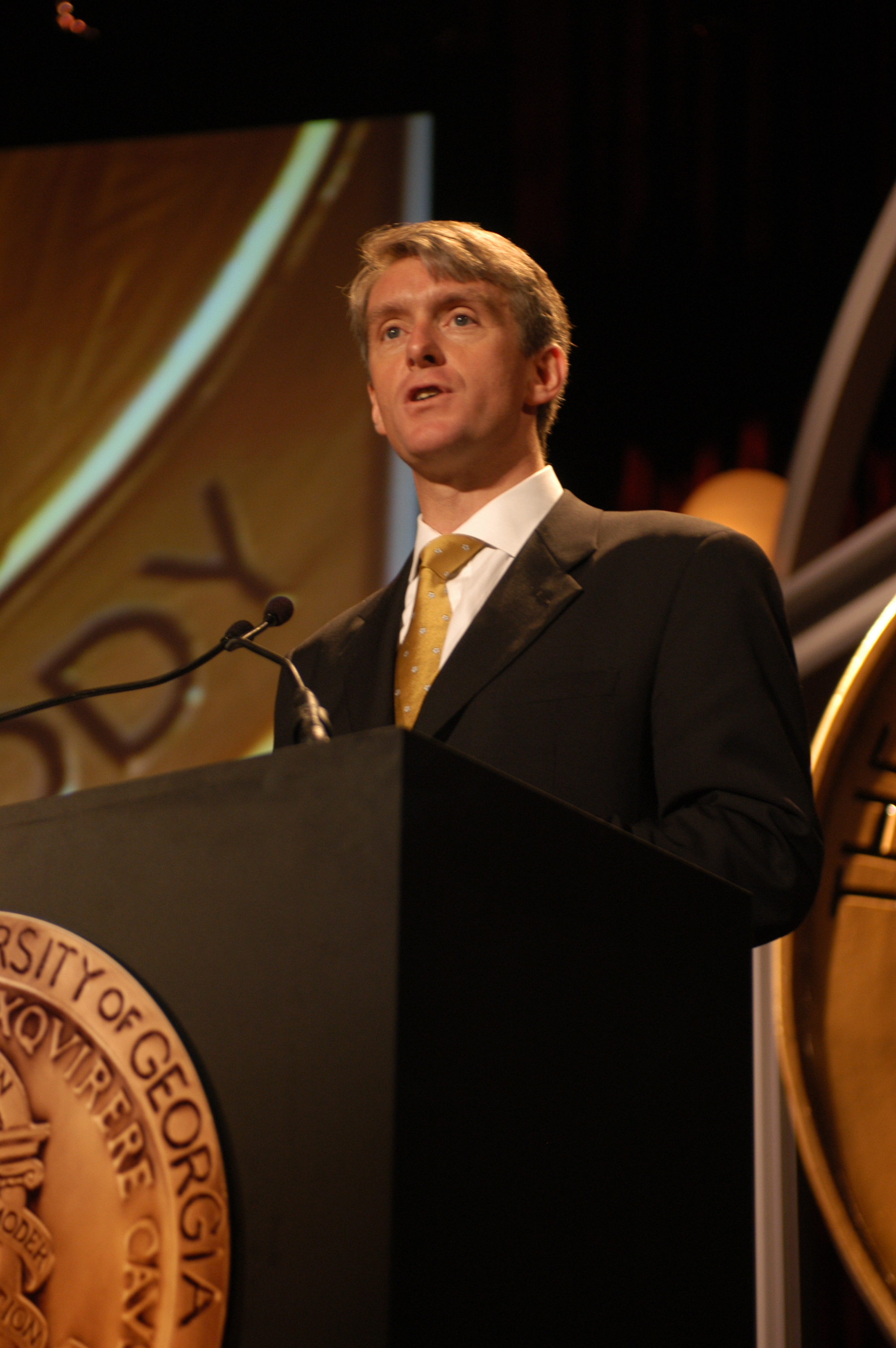 PHOTO CREDIT: ANDERS KRUSBERG / PEABODY AWARDS 62nd Annual Peabody Awards Luncheon Waldorf=Astoria Hotel May 19, 2003